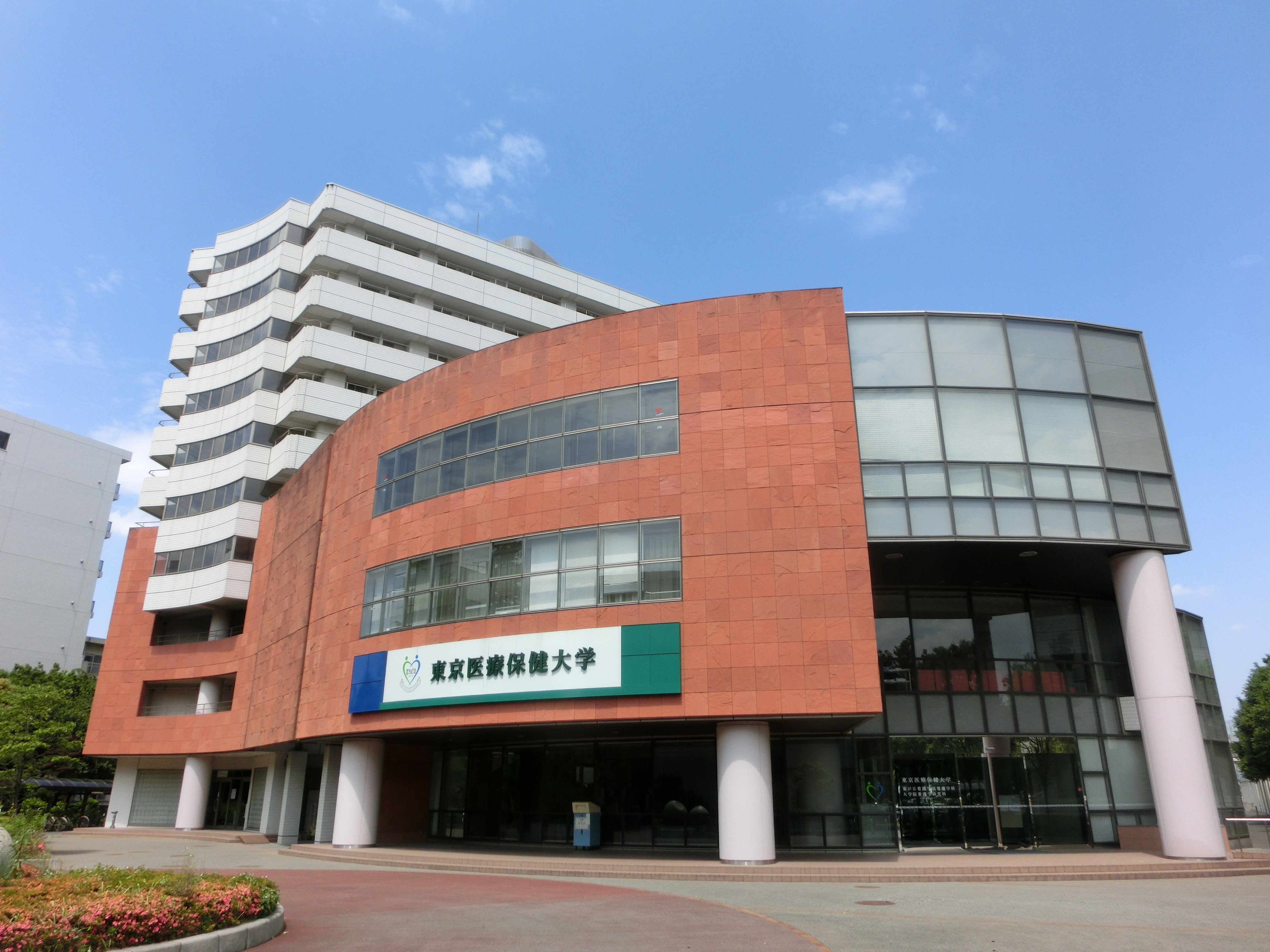 Tokyo Health Care University